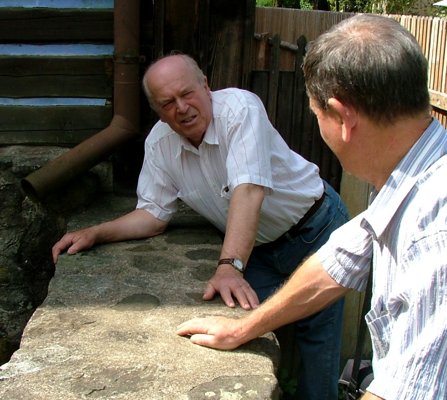 Luděk Štěpán 02